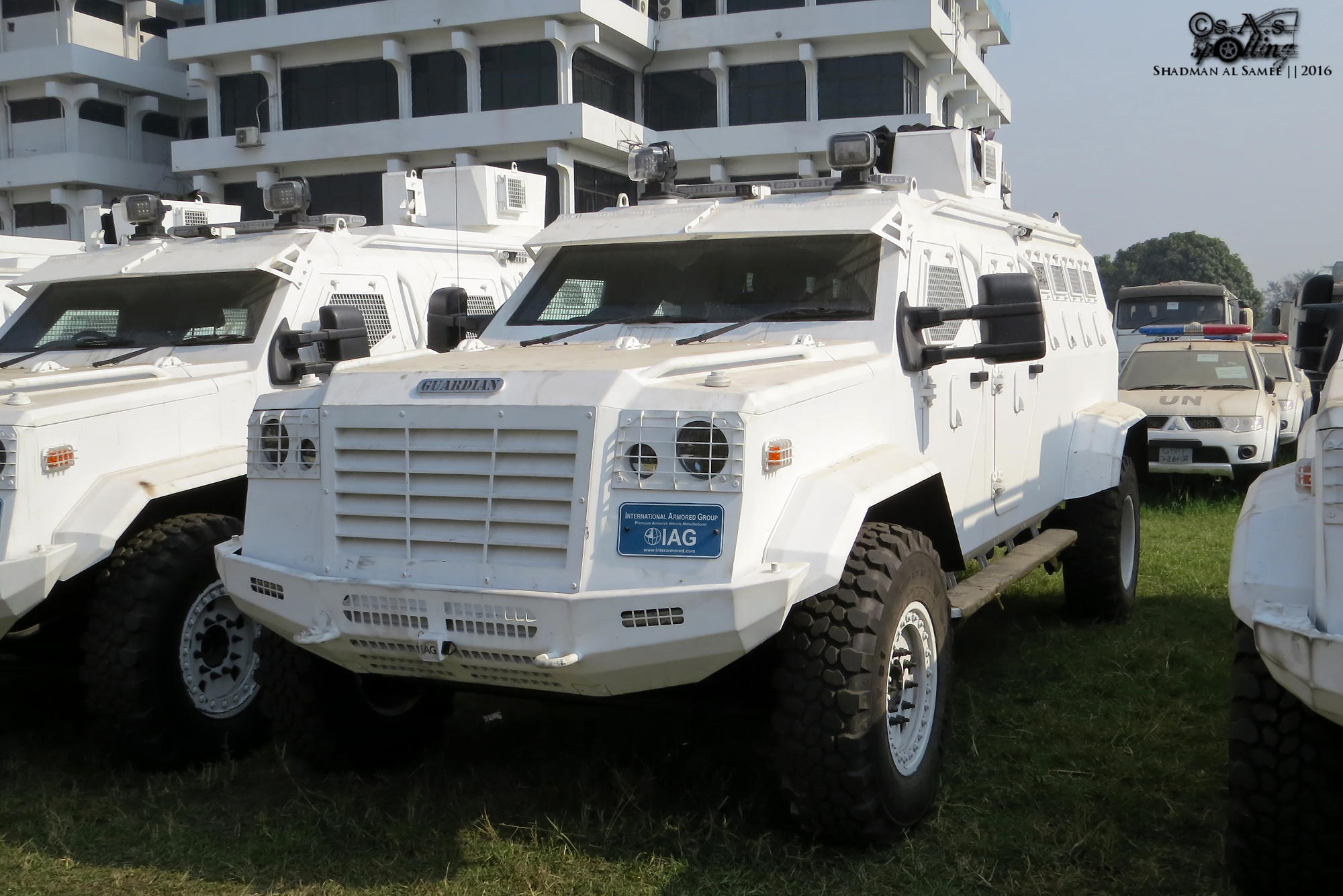 Dhaka 2016: The Police seems to be really impressed by IAG, they even purchased the Rhino! Bloody impressive I must say, feels like Dwayne Johnson's ride if he's in Bangladesh :P